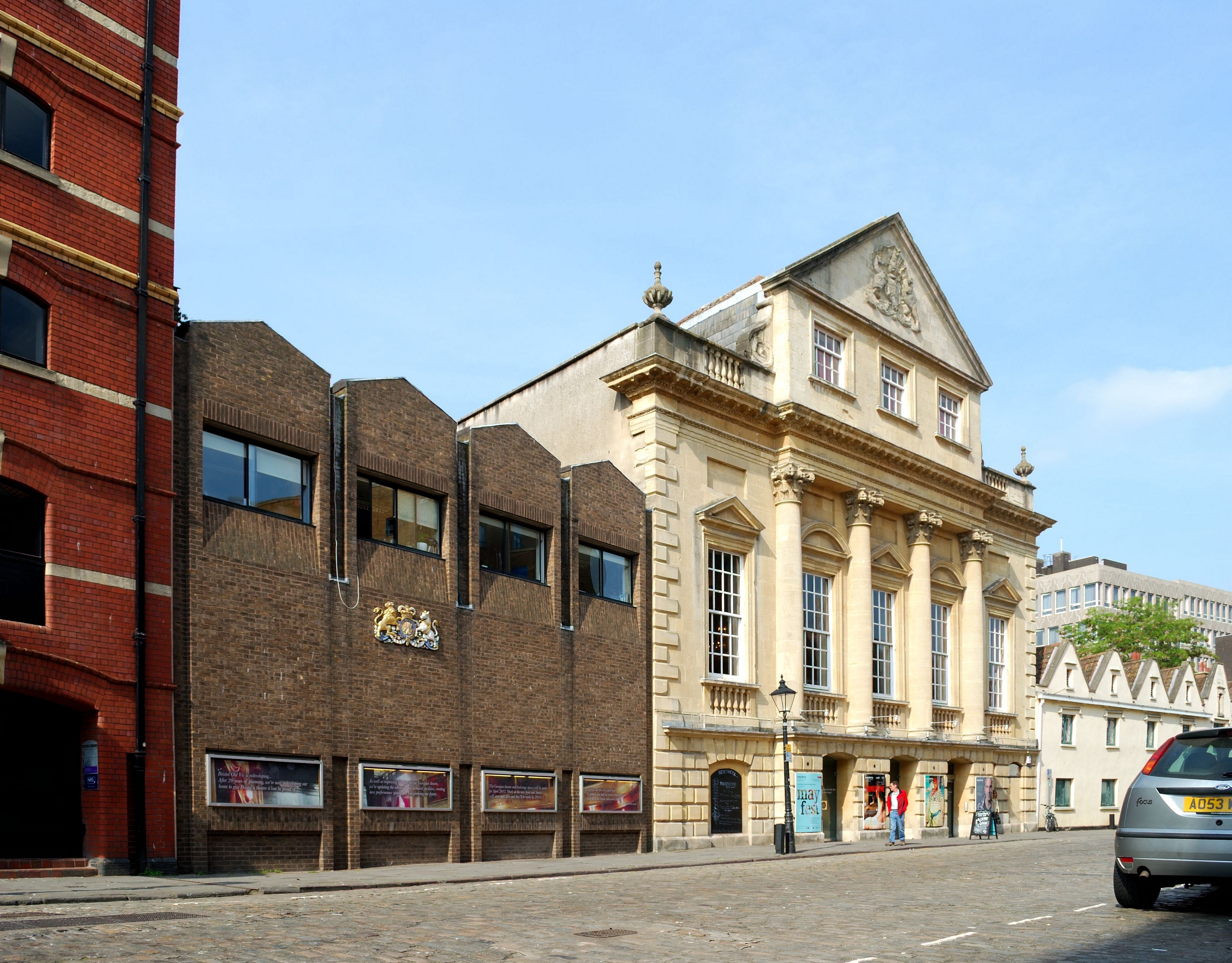 Bristol Old Vic, seen from King Street, Bristol